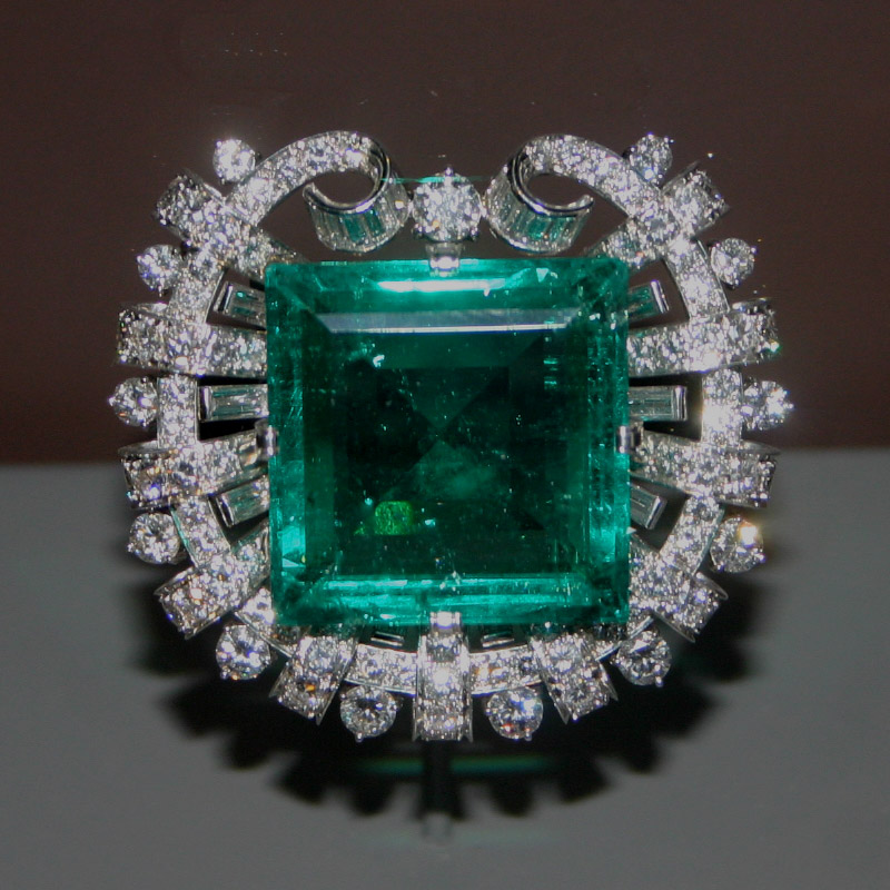 A beveled square-cut emerald in a platinum setting, surrounded by 109 round and 20 baguette cut diamonds. front view